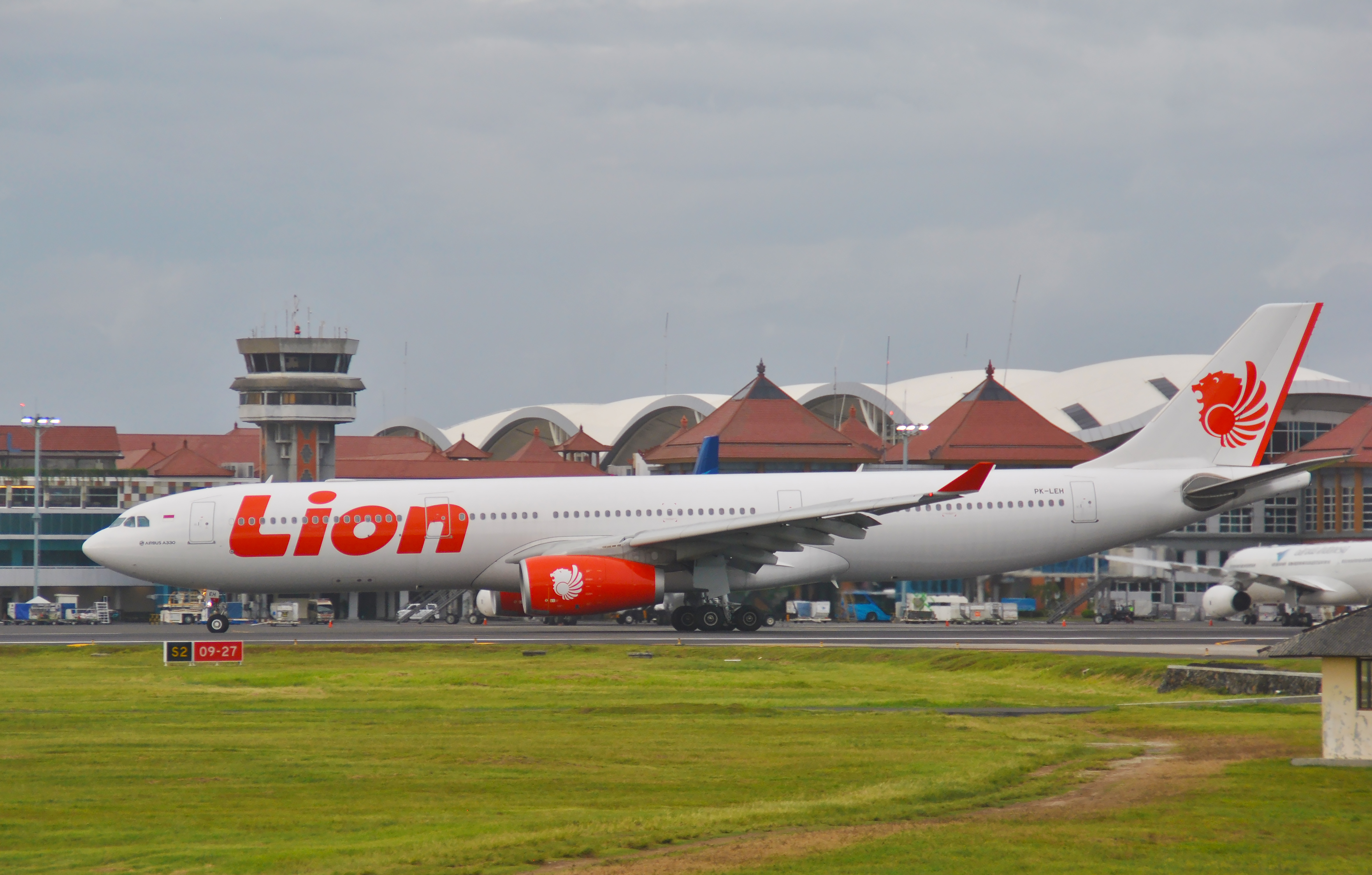 Lion Air Airbus A330-300 (PK-LEH) at Ngurah Rai Airport, Tuban, Badung Regency, Bali, Indonesia